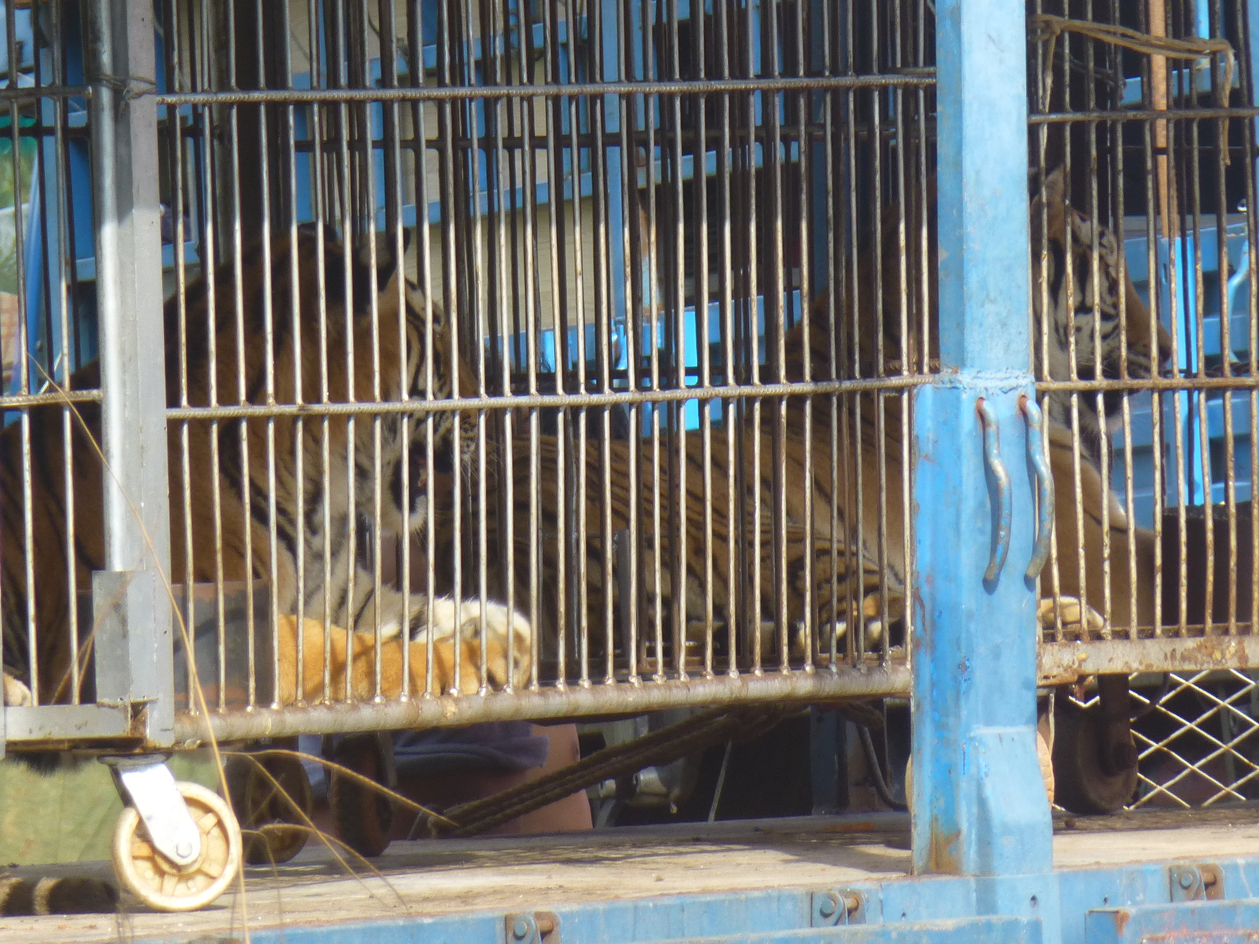 A traveling circus (apparently, from Anhui) camping out in an empty lot in Dongshan Town, Donghai Island, Guangdong. Two tigers can be seen in cages in one of the trucks.